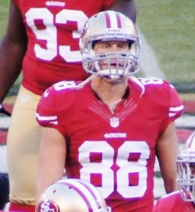 San Francisco 49ers tight end Konrad Reuland during preseason